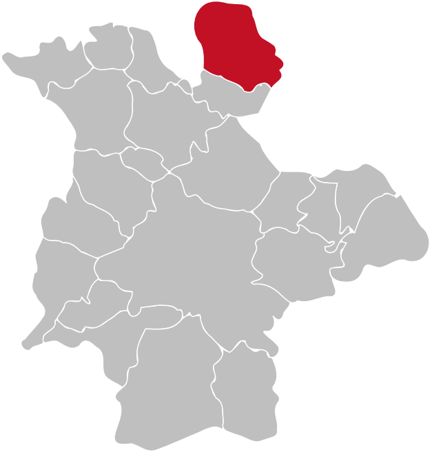 Location of the district Obersetzen within Siegen, Germany. Red/Grey colors match the color scheme of Germany maps and information boxes in German Wikipedia. District is highlighted in red.